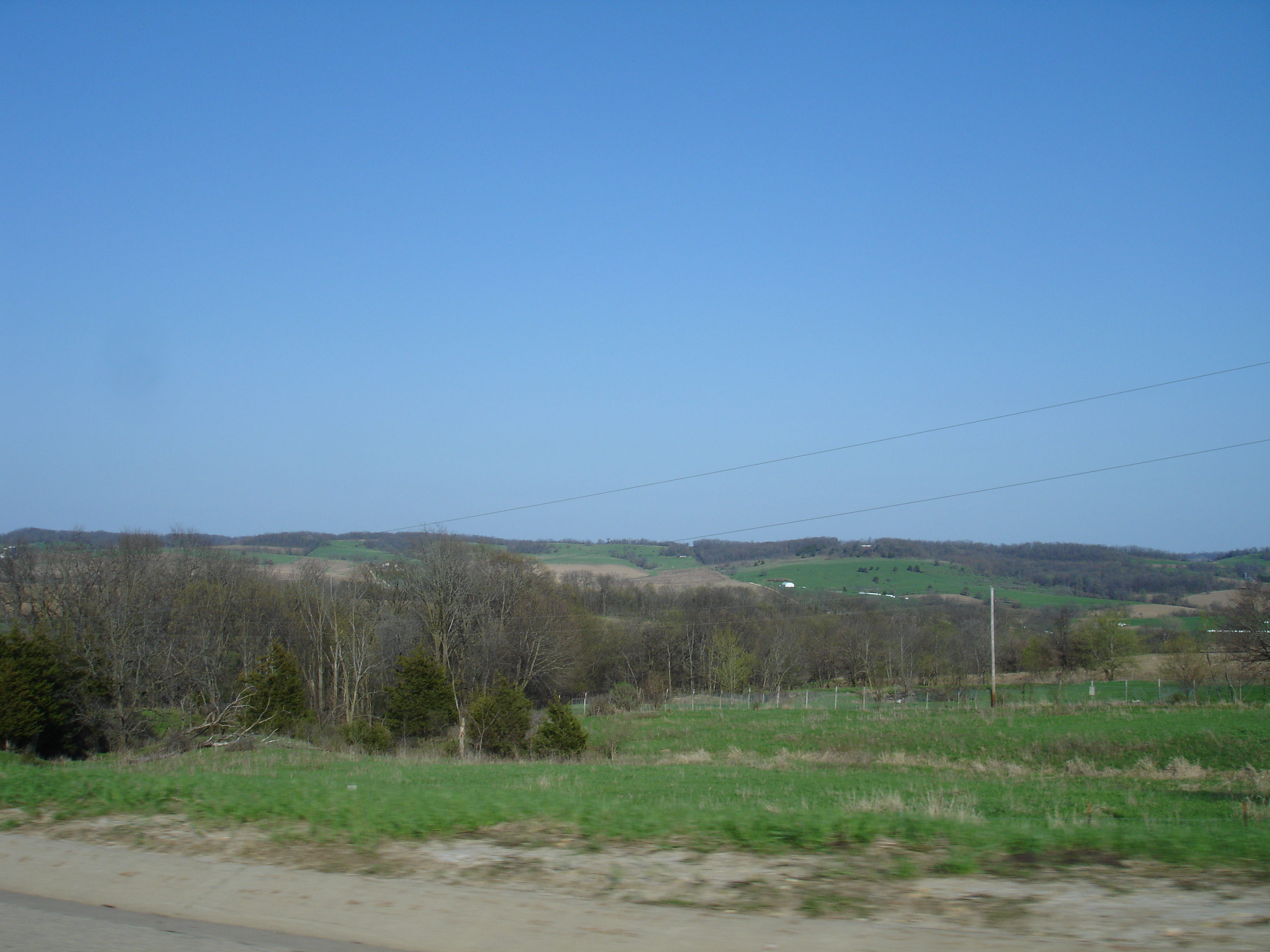 Rugged terrain in Jo Daviess County, Illinois, part of the Driftless Area. Taken along U.S. Route 20.